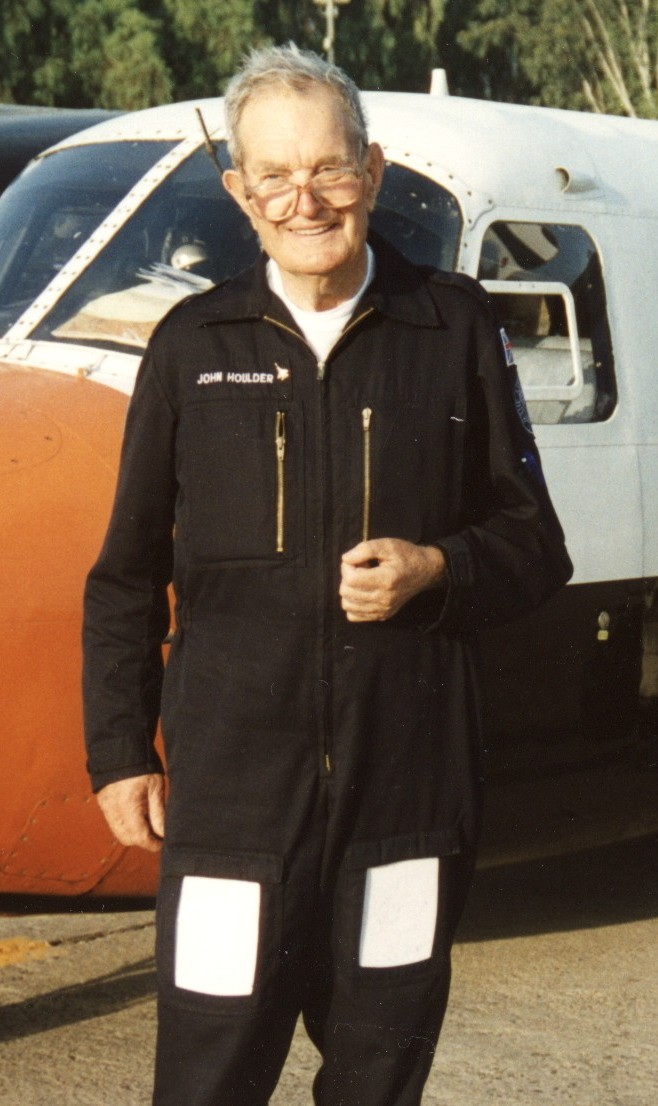 John Houlder with Aero Commander 1997